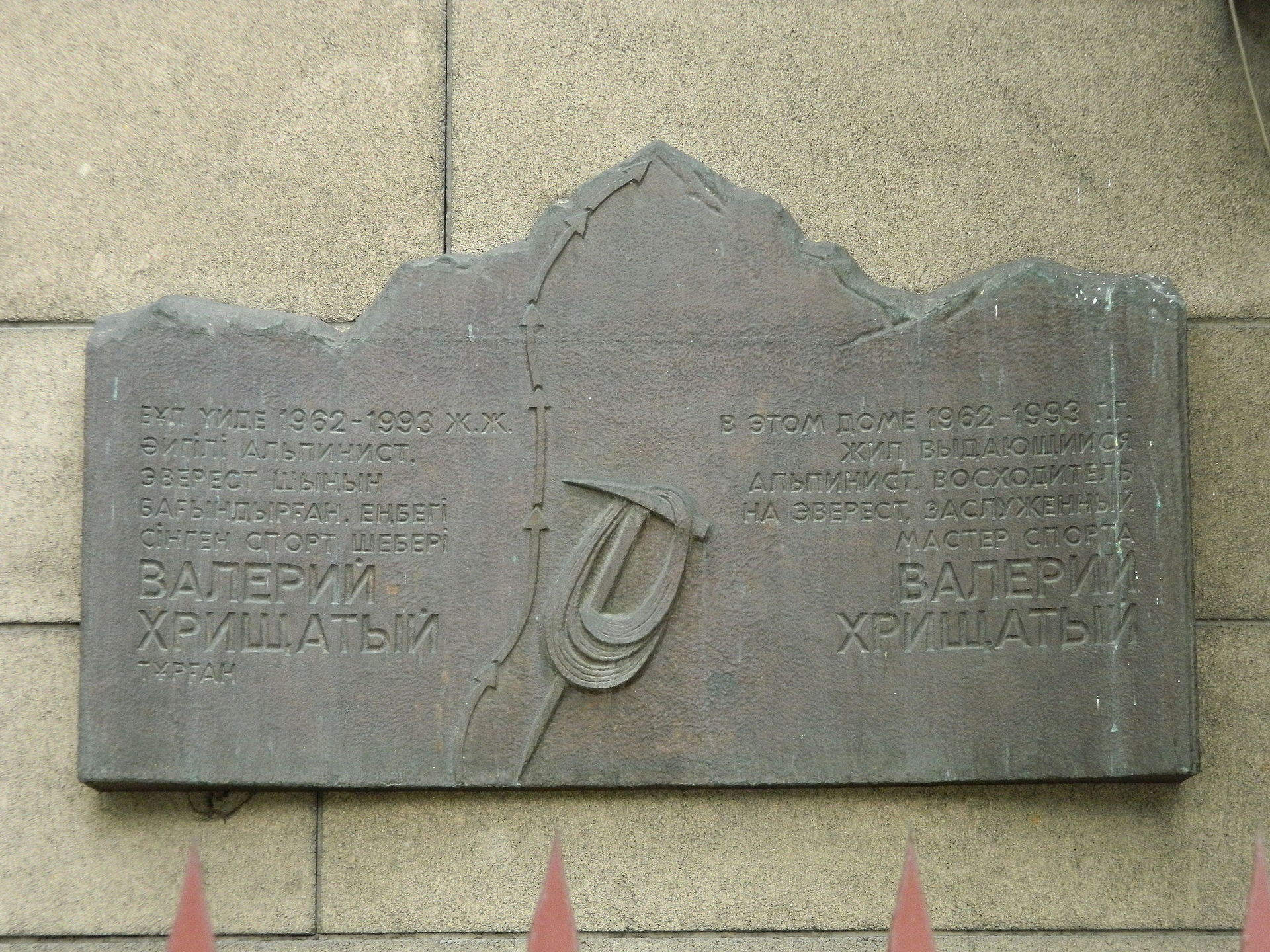 The plaque on the house in Almaty, Kazakhstan where lived Valery Khrichtchatyi